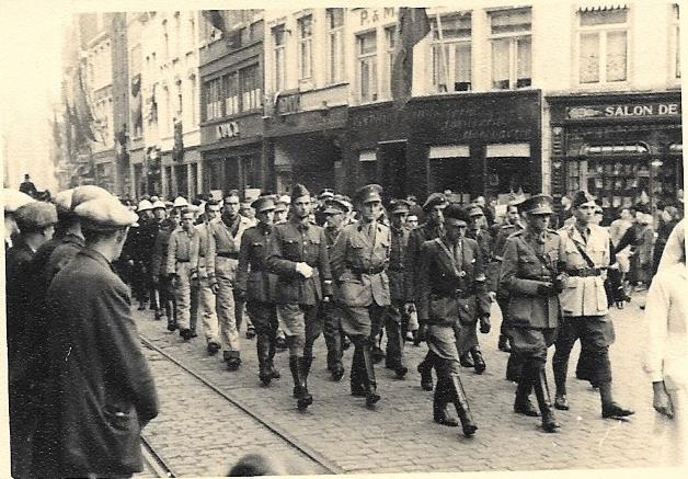 Brugge, na de Bevrijding in september 2044. Optocht door de Steenstraat van Verzetslui.